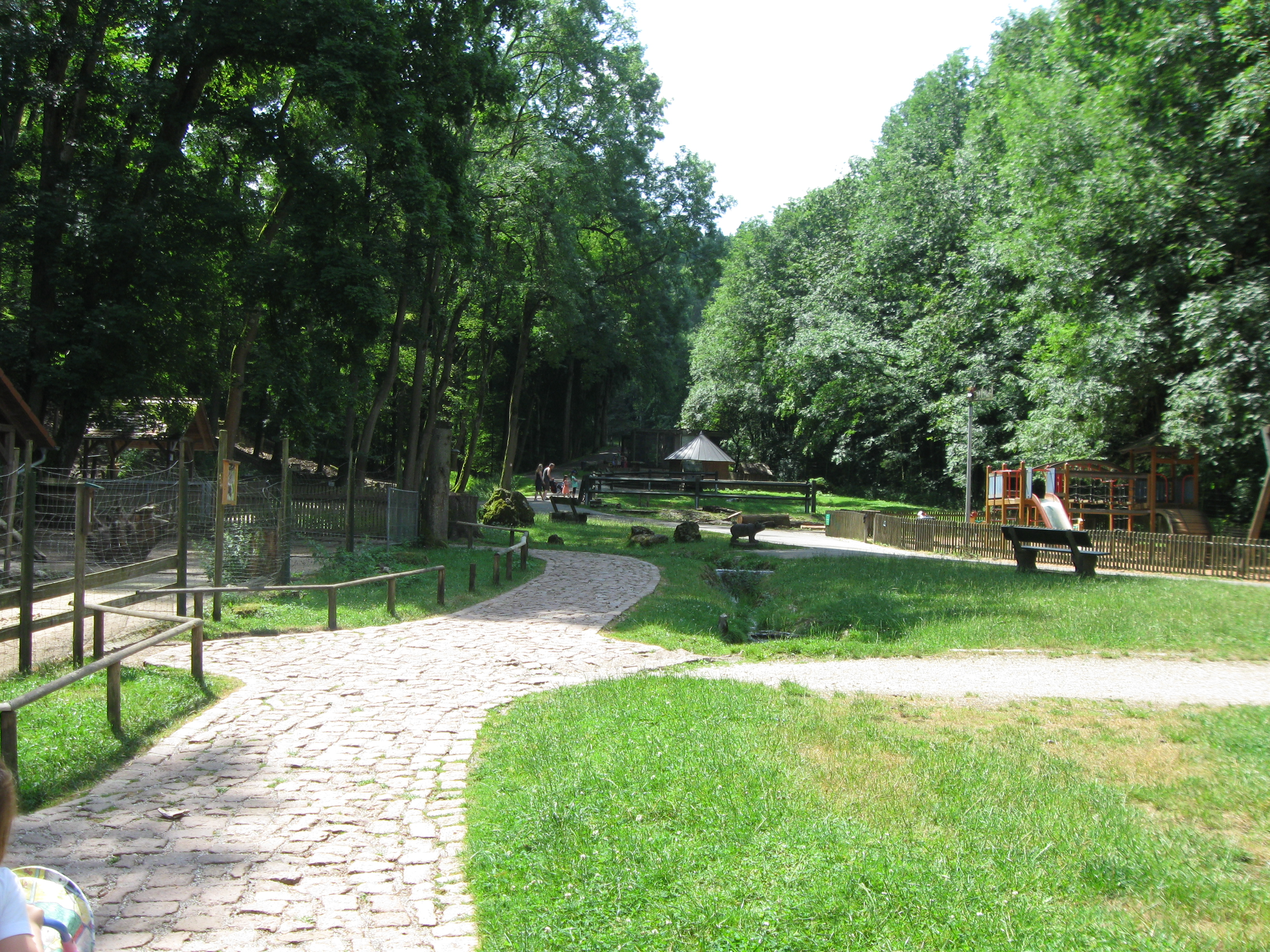 Wildpark Hundshaupten